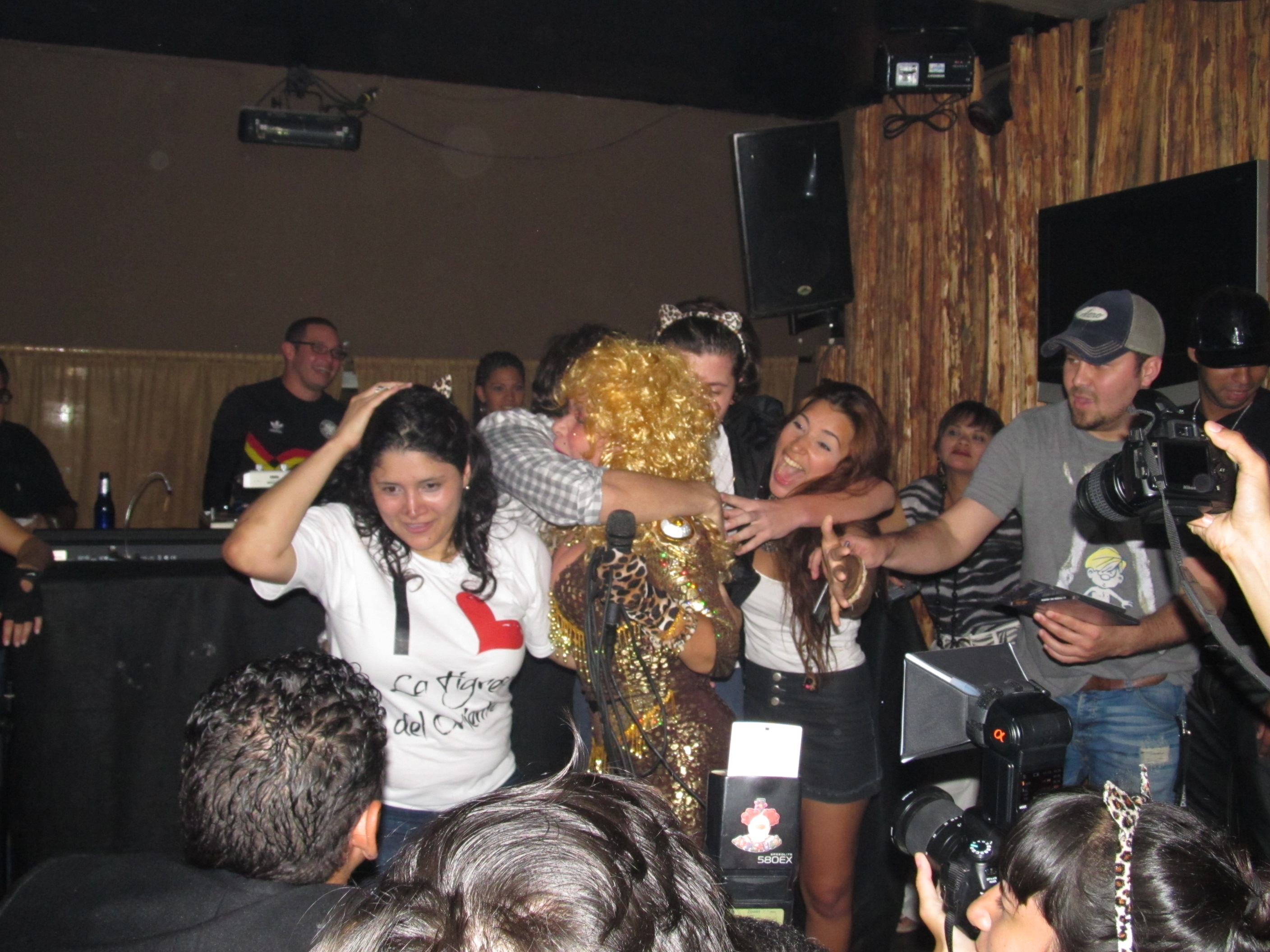 La Tigresa del Oriente with their children 'Tigrillos' (called the interpreter and his followers) in its show Maracaibo